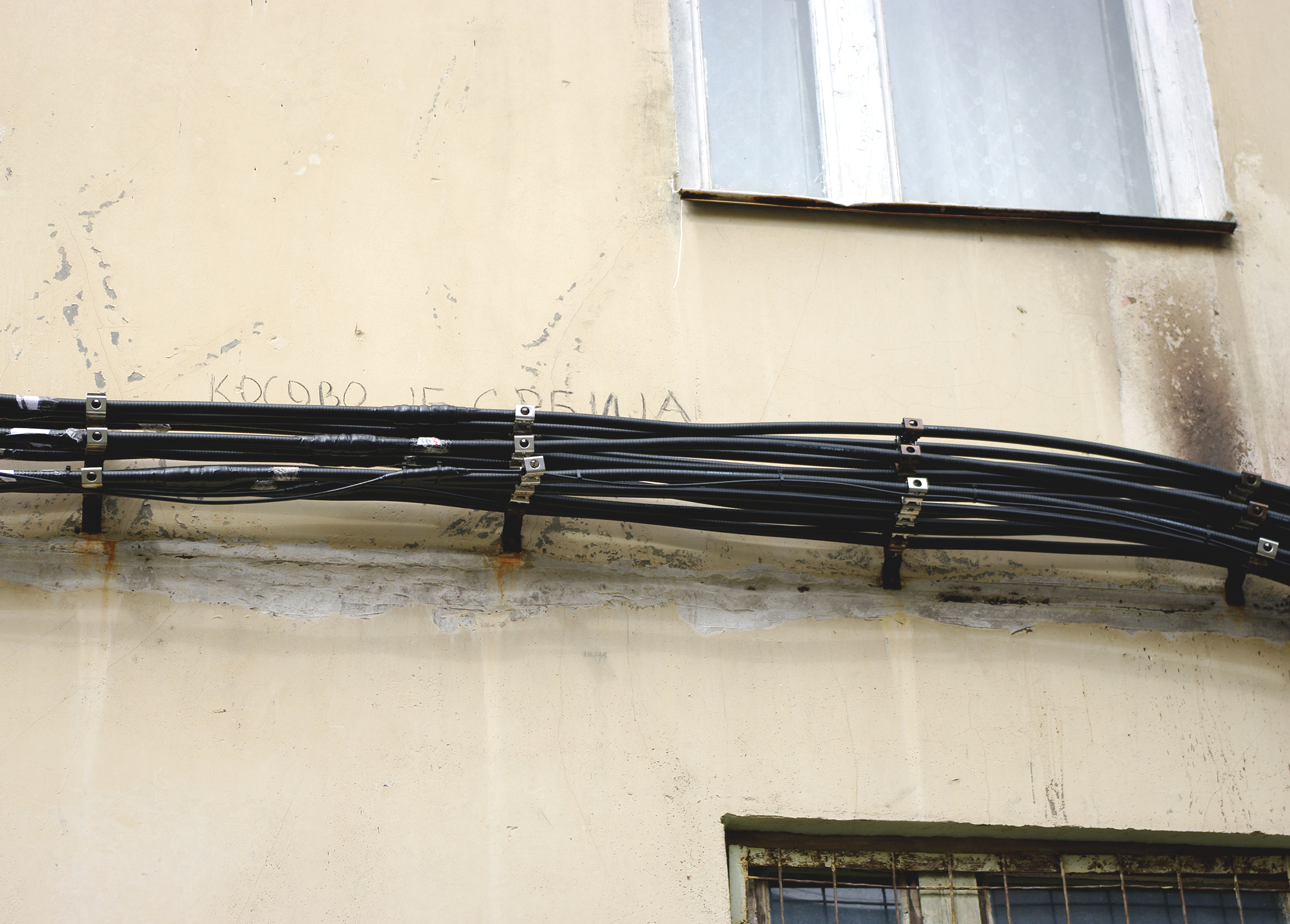 The slogan 'Kosovo je Srbia' in Oganer, Russia.